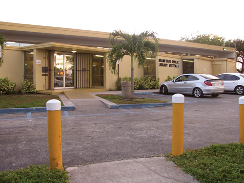 Lemon City Branch Library in its current location at 430 NE 61st Street.